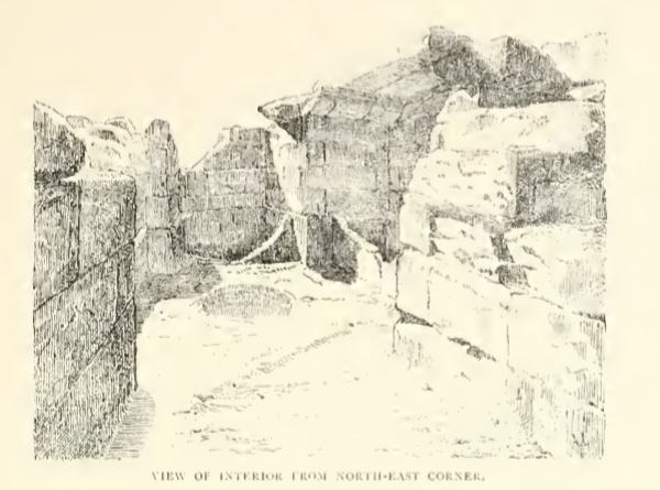 Al-Midya, Palestine